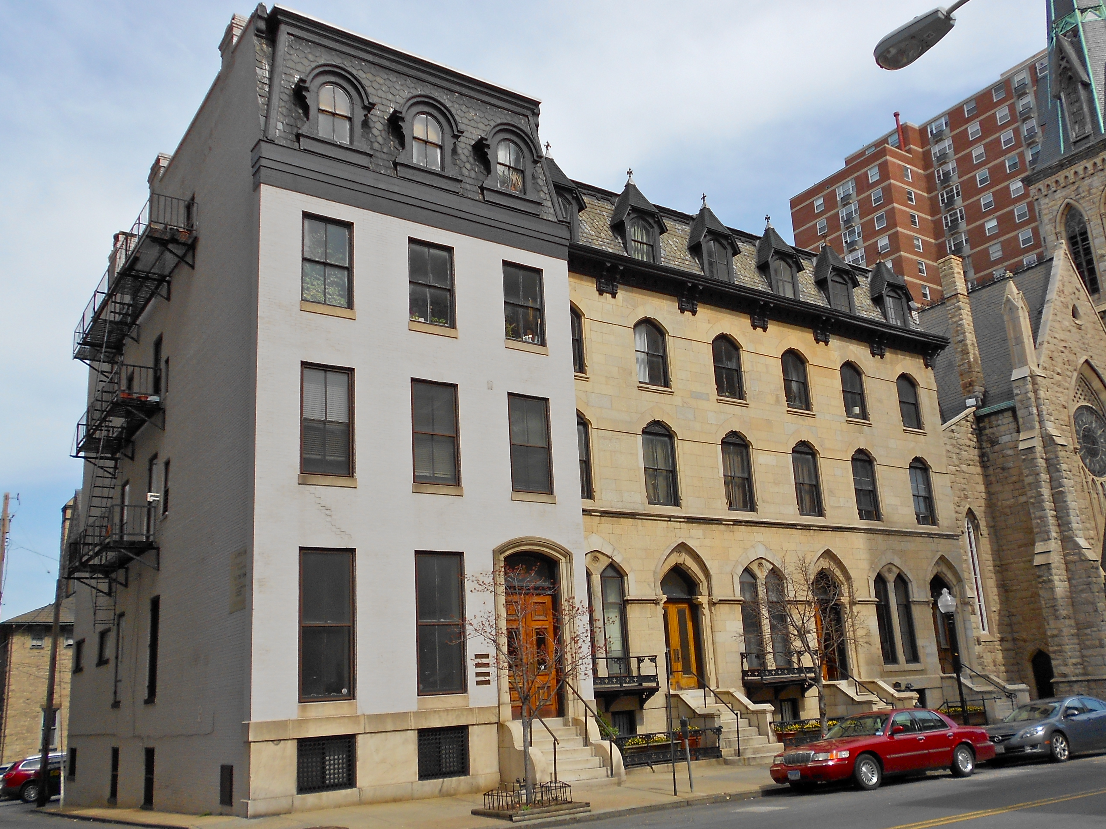 Buildings at 10, 12, 14, and 16 East Chase Street on the NRHP since March 10, 1980 At. 10, 12, 14, and 16 E. Chase St. in central Baltimore, Maryland. #10 is the white building, 12-16 are brownish.